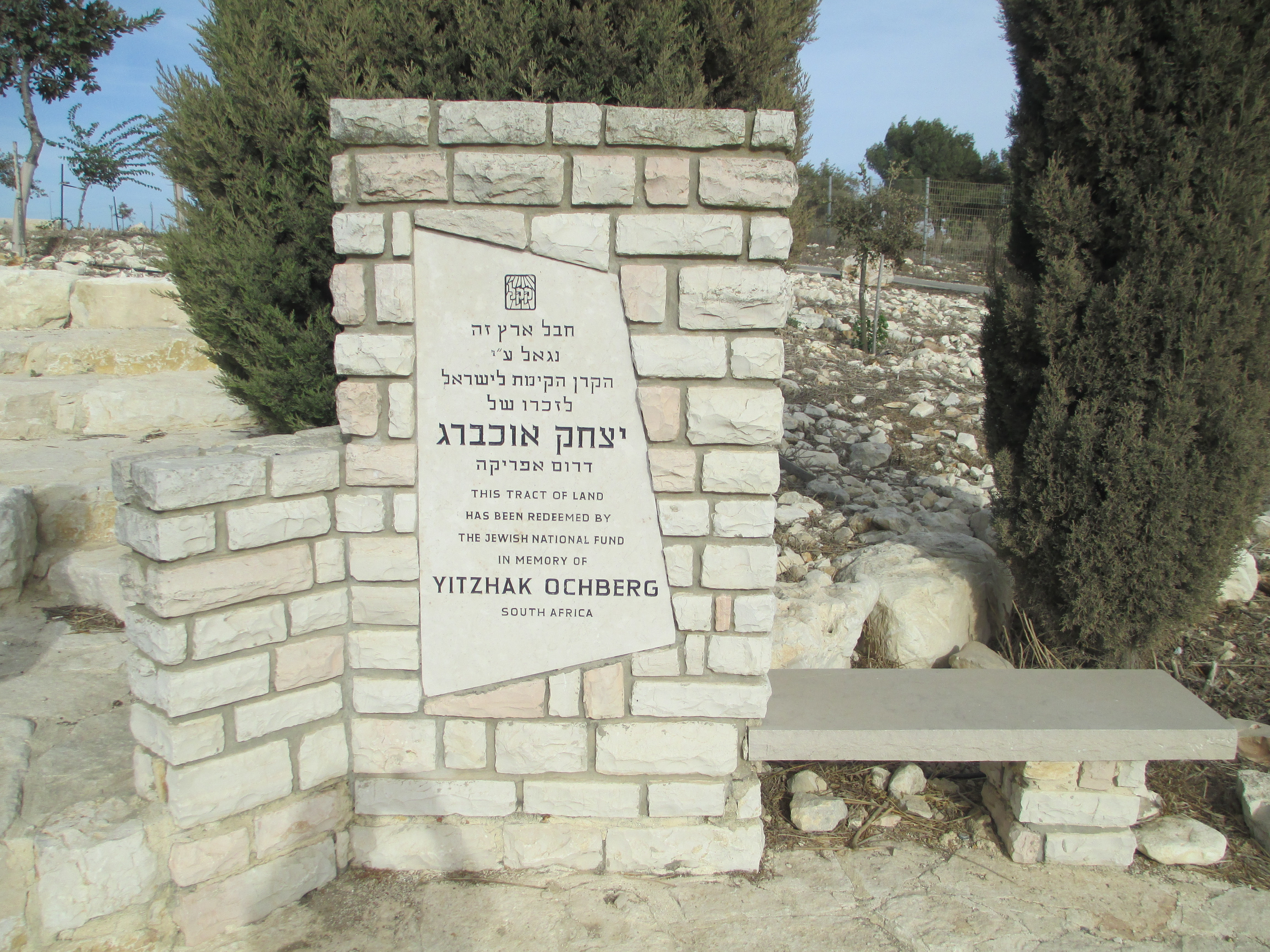 Ochberg Lookout